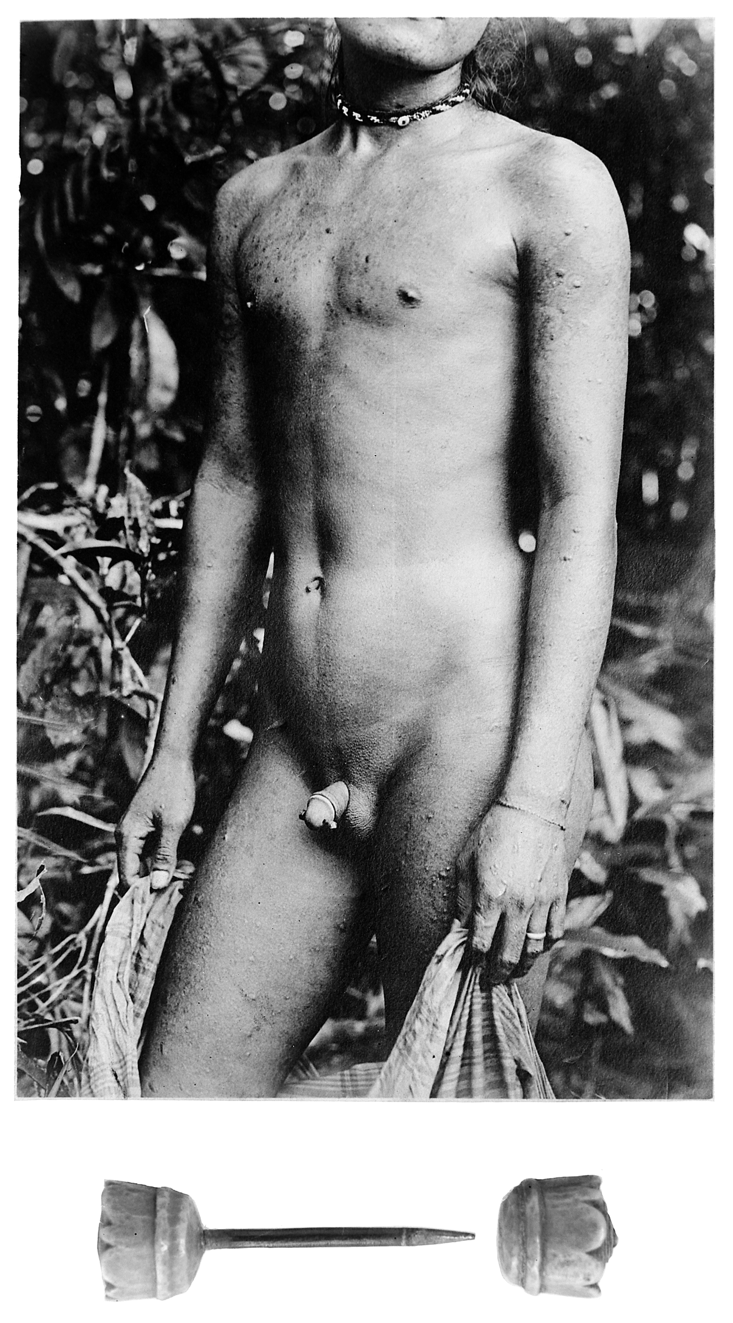 An Ampalang piercing: a short metal pin with a carved bone button at both ends, for insertion through the penis horizontally. Dayak, Borneo. Wellcome Images Keywords: Birth control; rings, pins, plugs; artificial deformation; indigenous non-european medicine; body decoration